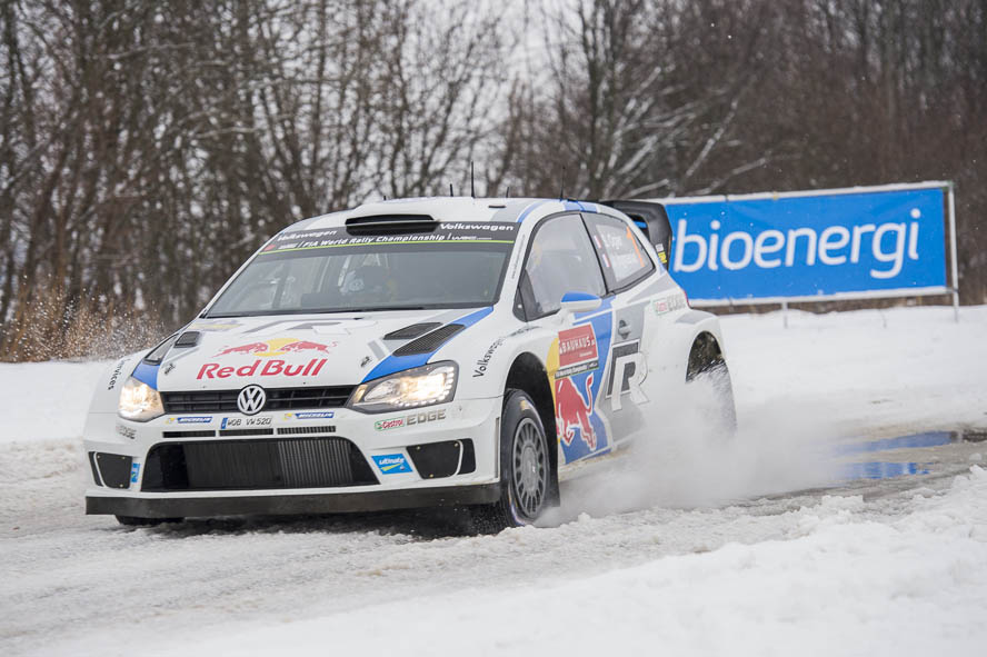 Rally Sweden 2014 Julien Ingrassia,Kirkener 1,Motorsport,Rally,Rally Sweden,Rallye,Rallye Schweden,SS3,Sebastien Ogier,VW Polo R WRC,Volkswagen Motorsport,Volkswagen Polo R WRC,WP3